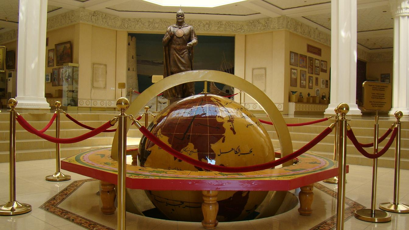 Globe and Temurmalik istorikoғkraevedcheskom statue in the regional museum, the city of Khujand